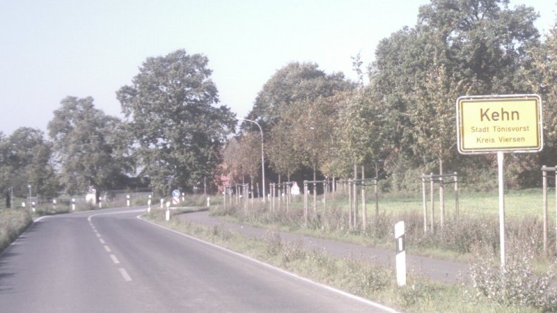 Kehn, Tönisvorst, Germany